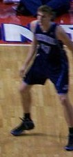 Andrei Kirilenko.